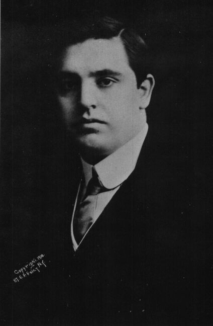 Publicity photograph John McCormack taken in New York in 1910. Published in US.